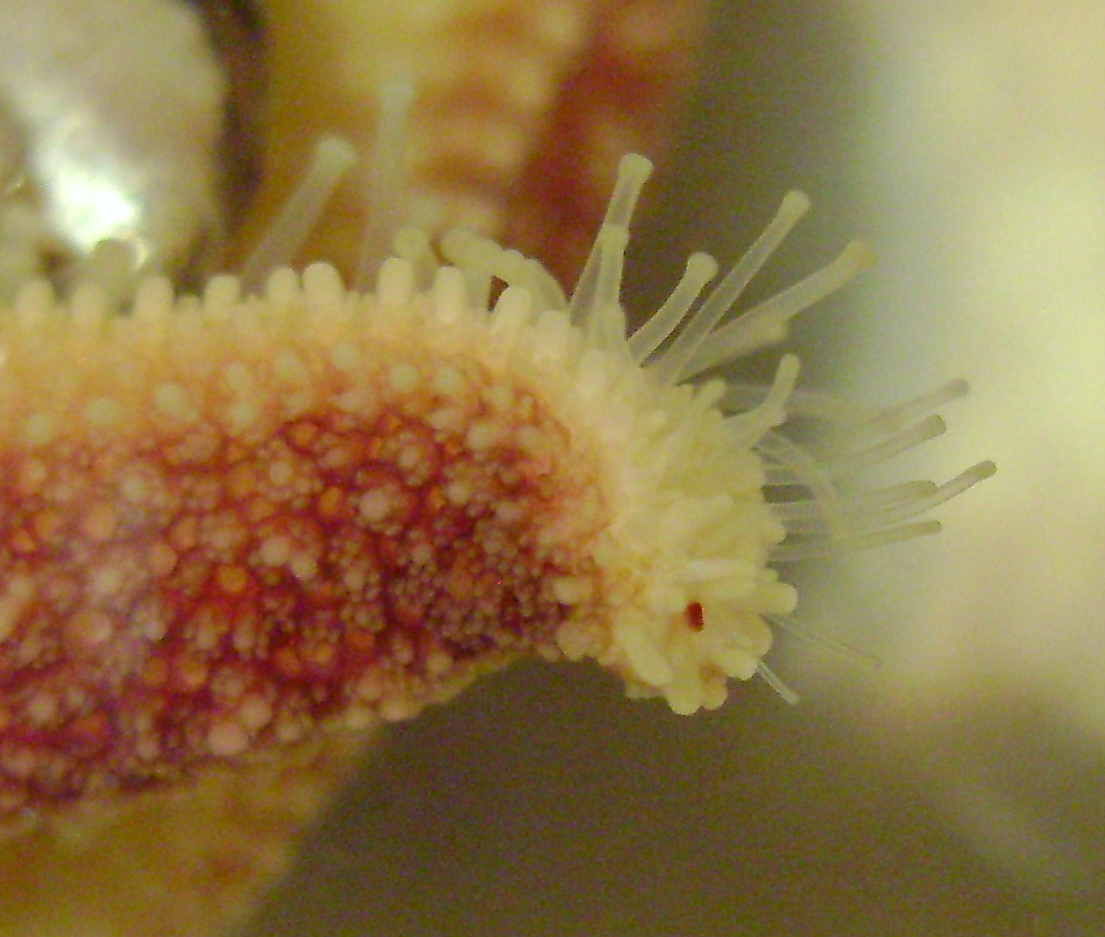 Detail of the extremity of a northern sea star's (Leptasterias polaris) arm, living in the tank of the Saint-Lawrence exploration center, in Rivière-du-Loup, Québec. Tube feet and pigment spot ocelli are visible.